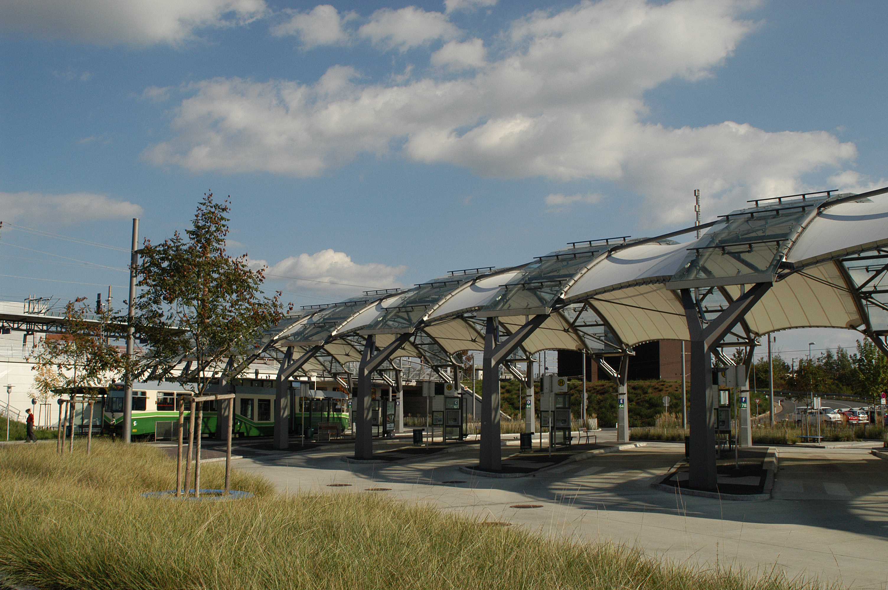 Please report references to kulacgmx.at.